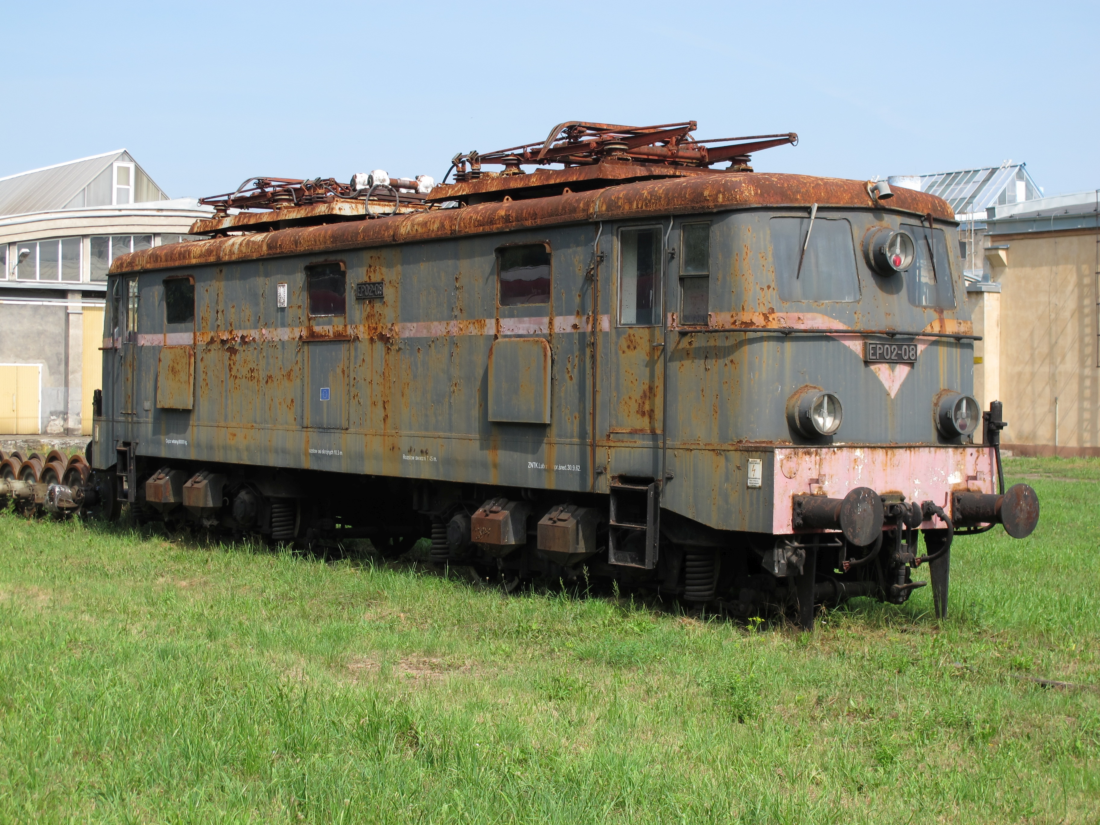 Kraków - EP02-08 locomotive